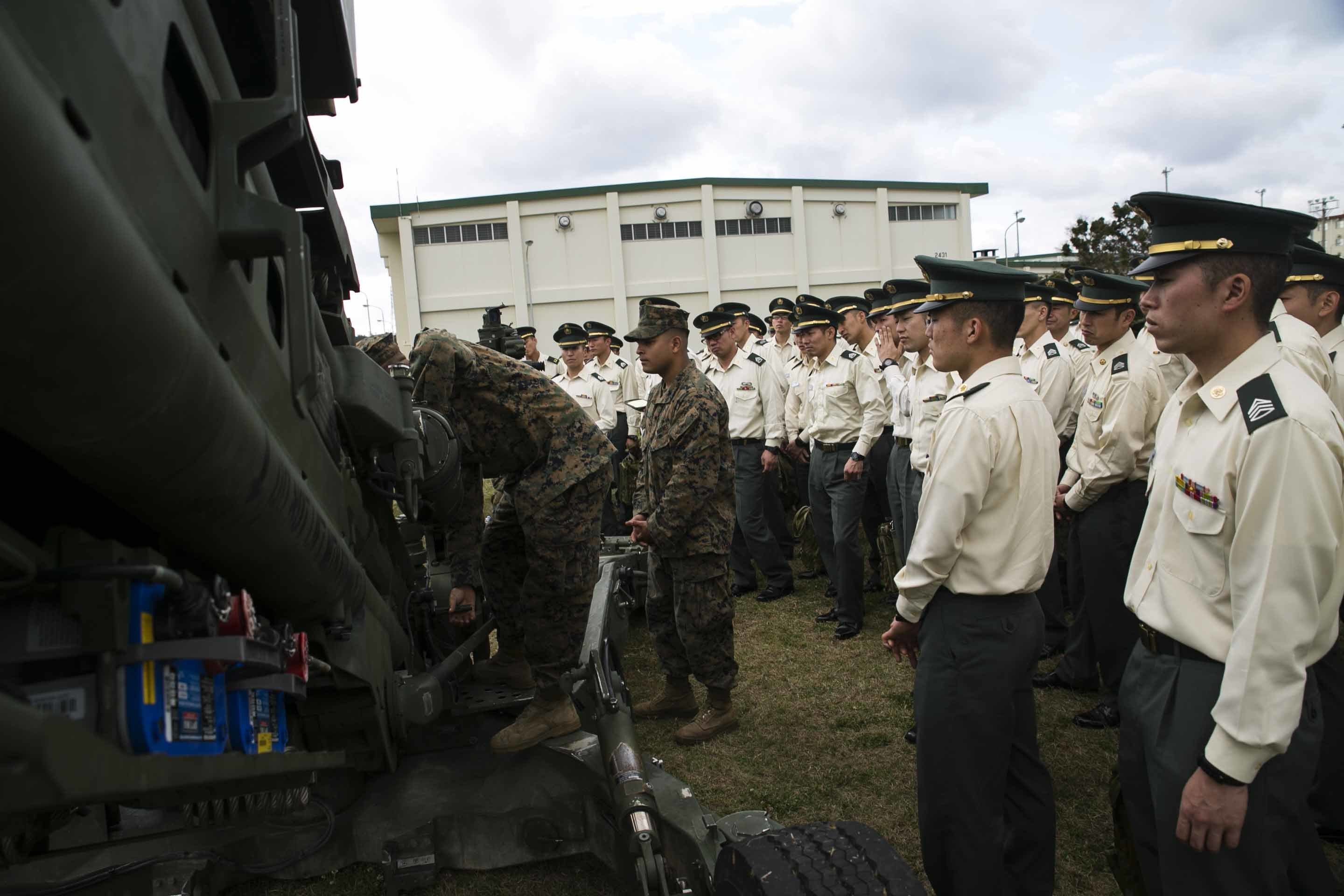 U.S. Marines demonstrate how they operate their M777A2 Howitzer to Japan Self-Defense Force Officer Candidates Feb. 26 on Camp Hansen, Okinawa, Japan. Marines from 12th Marine Regiment displayed eight different vehicles and over 10 weapons, for more than 300 JSDF Officer Candidates. The Officer Candidates are part of the Japan Observer Exchange Program. JOEP provides opportunities for III Marine Expeditionary Force Marines and JSDF personnel to observe training of their counterparts in order to increase mutual understanding and interoperability. The U.S. Marines are with 12th Marines, 3rd Marine Division, III MEF. (U.S. Marine Corps Photo by Cpl. Thor J. Larson/Released)